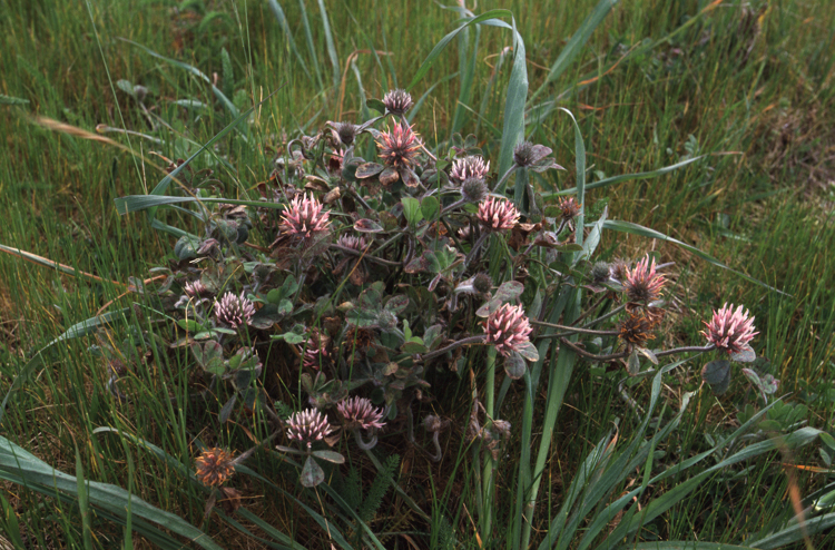 Trifolium hirtum at Humboldt Bay National Wildlife Refuge Complex, California, USA